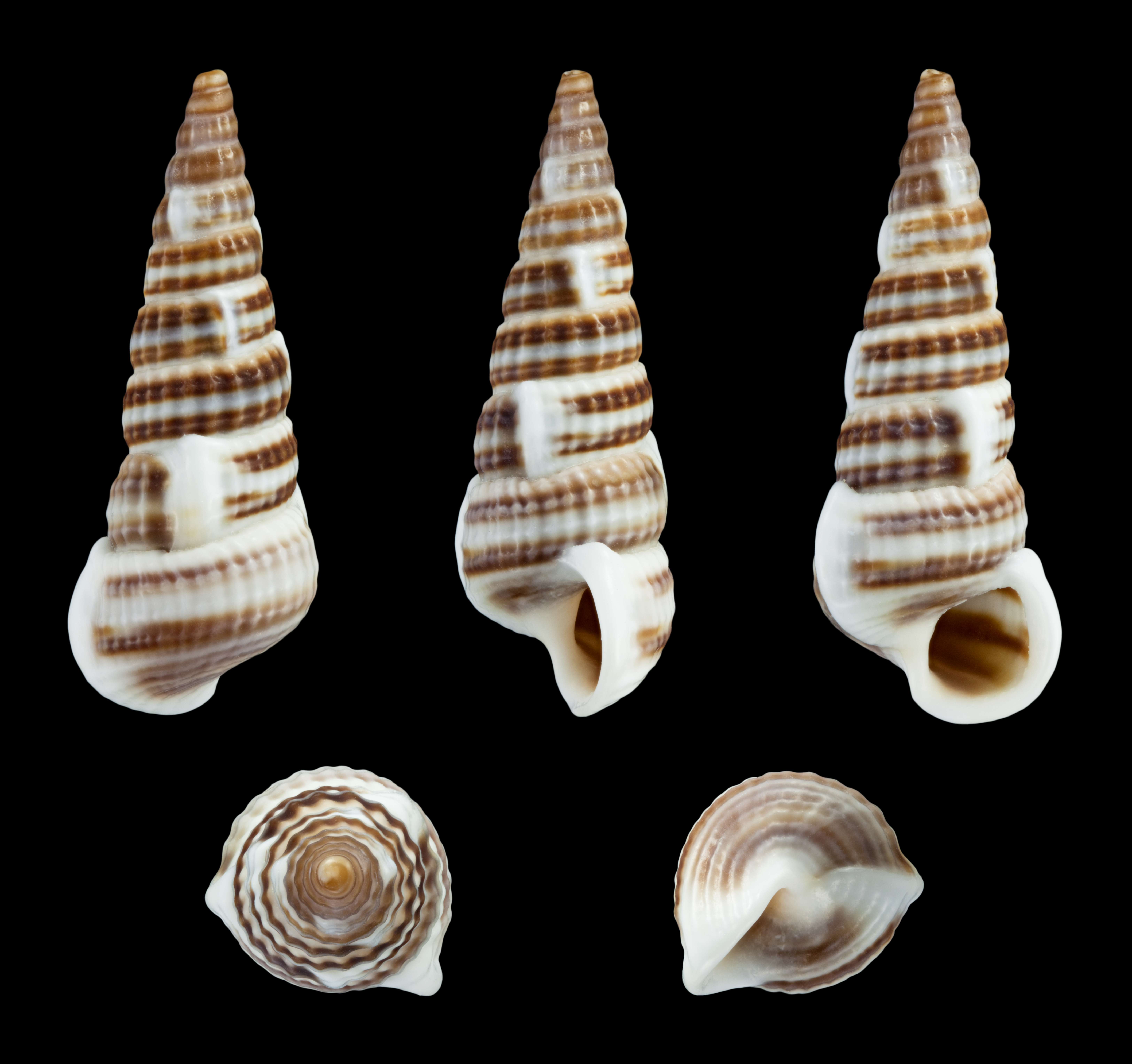 Cerithideopsis californica albonodosa (Gould & Carpenter, 1857), Length 2.8 cm; Originating from the Pacific coast of Mexico; Shell of own collection, therefore not geocoded.